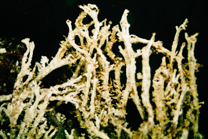 Cladonia squamosa Hoffm., 1796 (photograph of a herbarium specimen taken through a dissecting microscope (x6) showing squamulose podetia) Growing on soil between low bushes at Red Creek Campground in Dolly Sods Wilderness Area of the Monongahela National Forest, West Virginia, USA; collected and identified by Elmer G. Worthley (No. L-88, 22 Oct 1983); specimen is now in the Lichen Herbarium of the New York Botanical Garden.